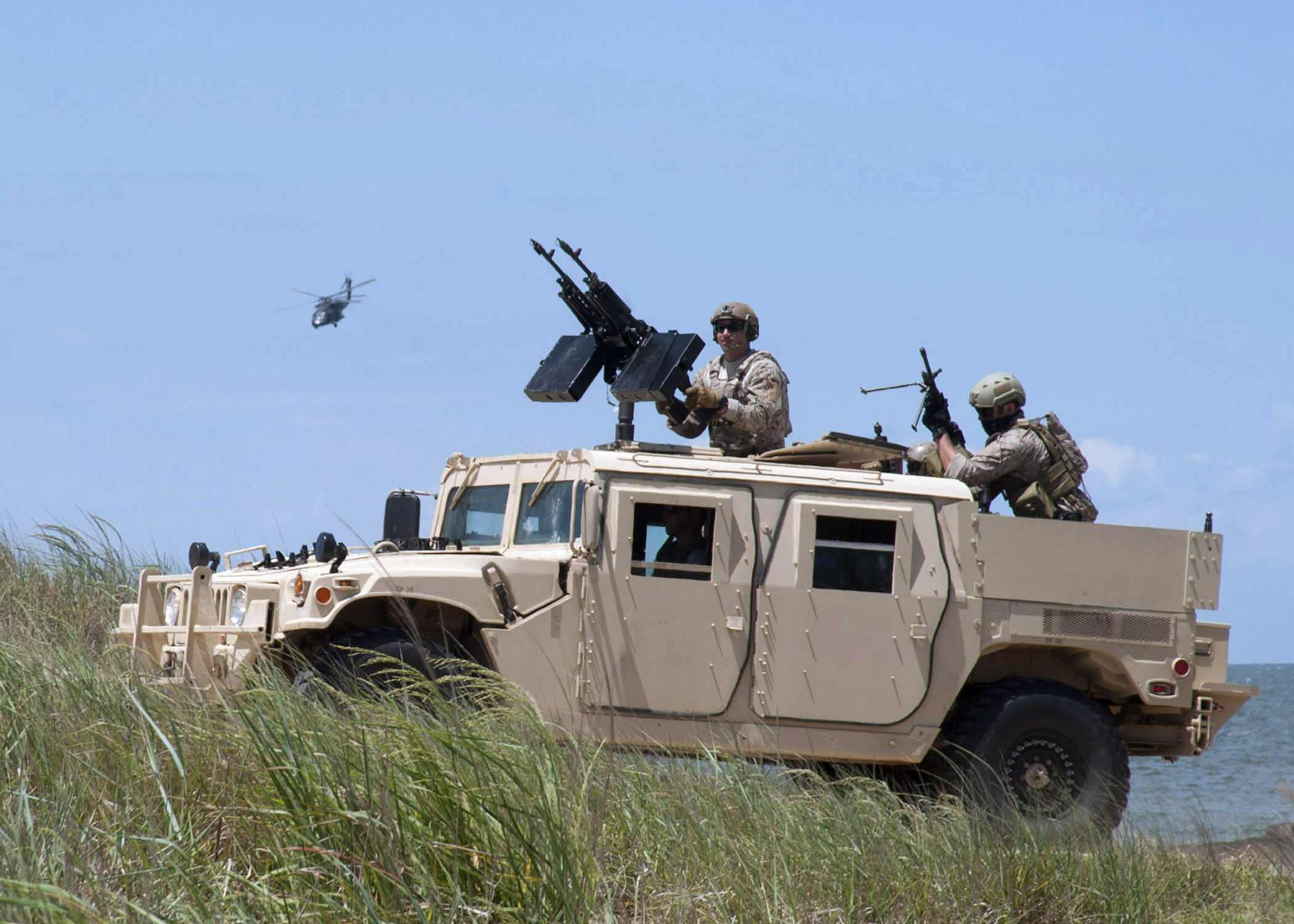 VIRGINIA BEACH, Va. (July 16, 2011) U.S. Navy SEALs ride in a Navy Special Warfare humvee to provide security for a simulated prisoner escort during a capabilities exercise at Joint Expeditionary Base Little Creek-Fort Story as part of the 42nd annual UDT/SEAL East Coast Reunion celebration. (U.S. Navy photo by Petty Officer 3rd Class James Ginther/Released)